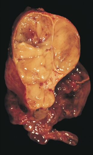 MEDIASTINUM: ENCAPSULATED THYMOMA (MIXED LYMPHOCYTIC AND EPITHELIAL) A bottle-shaped tumor is encapsulated and shows a bulging, rather homogeneous, faintly lobulated ivory-colored cut surface.